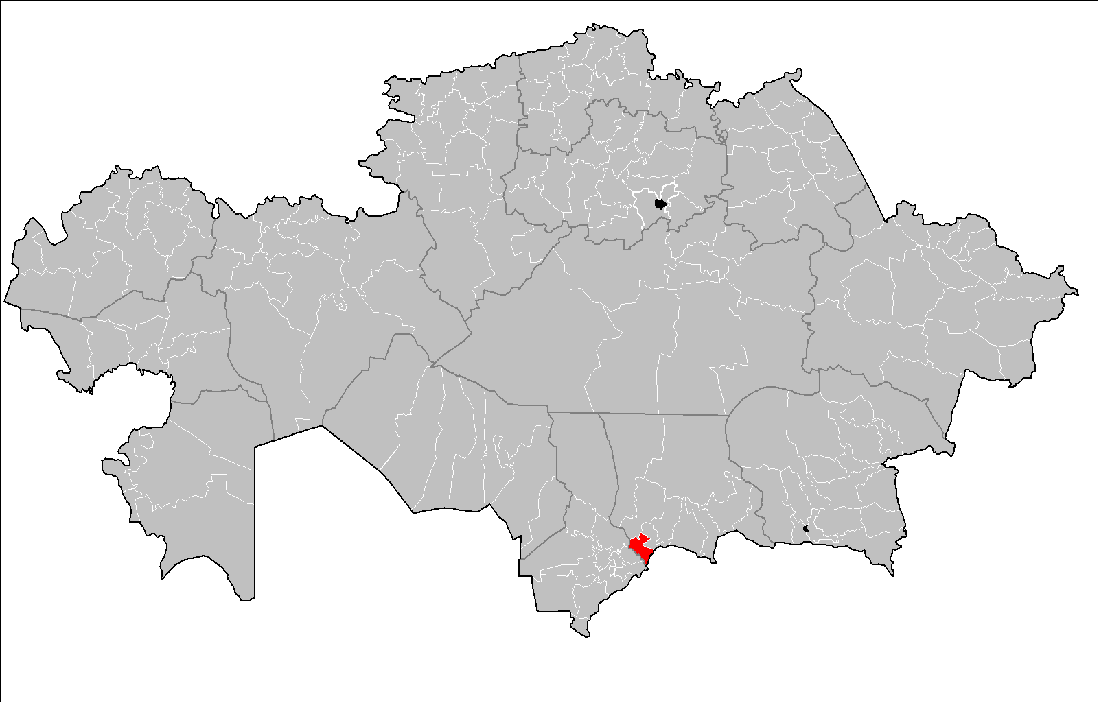 Map of the rayons of Kazakhstan. Created by Rarelibra 16:49, 3 August 2007 (UTC) for public domain use, using MapInfo Professional v8.5 and various mapping resources.